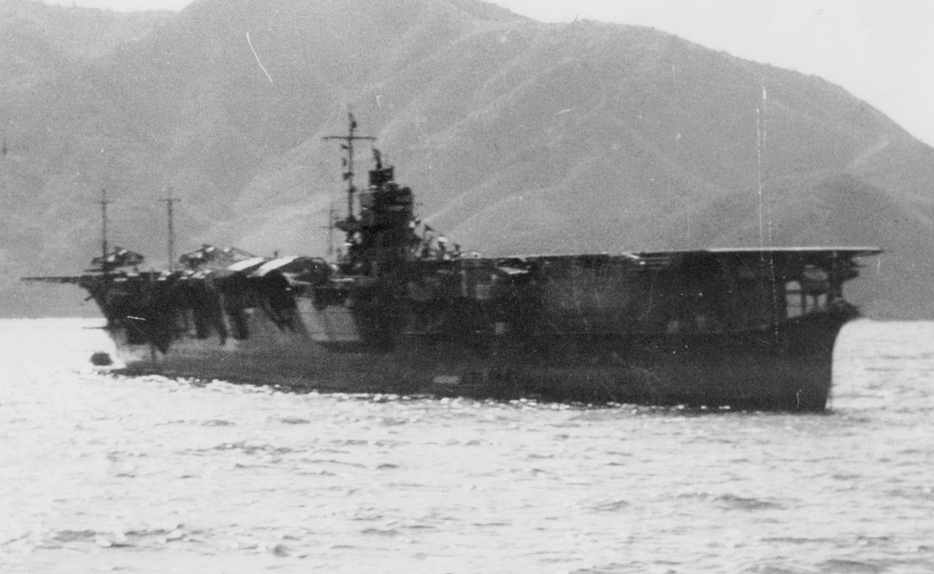 Japanese Aircraft Carrier Soryu at anchor in the Kurile Islands, shortly before the start of the Pacific War.